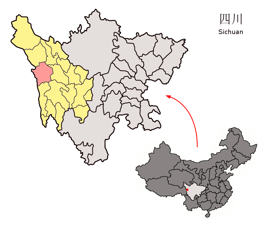 Location of Baiyü County (pink) and Garzê Prefecture (yellow) within Sichuan province of China Map drawn in september 2007 using various sources, mainly : Sichuan province administrative regions GIS data: 1:1M, County level, 1990 Sichuan Counties map from